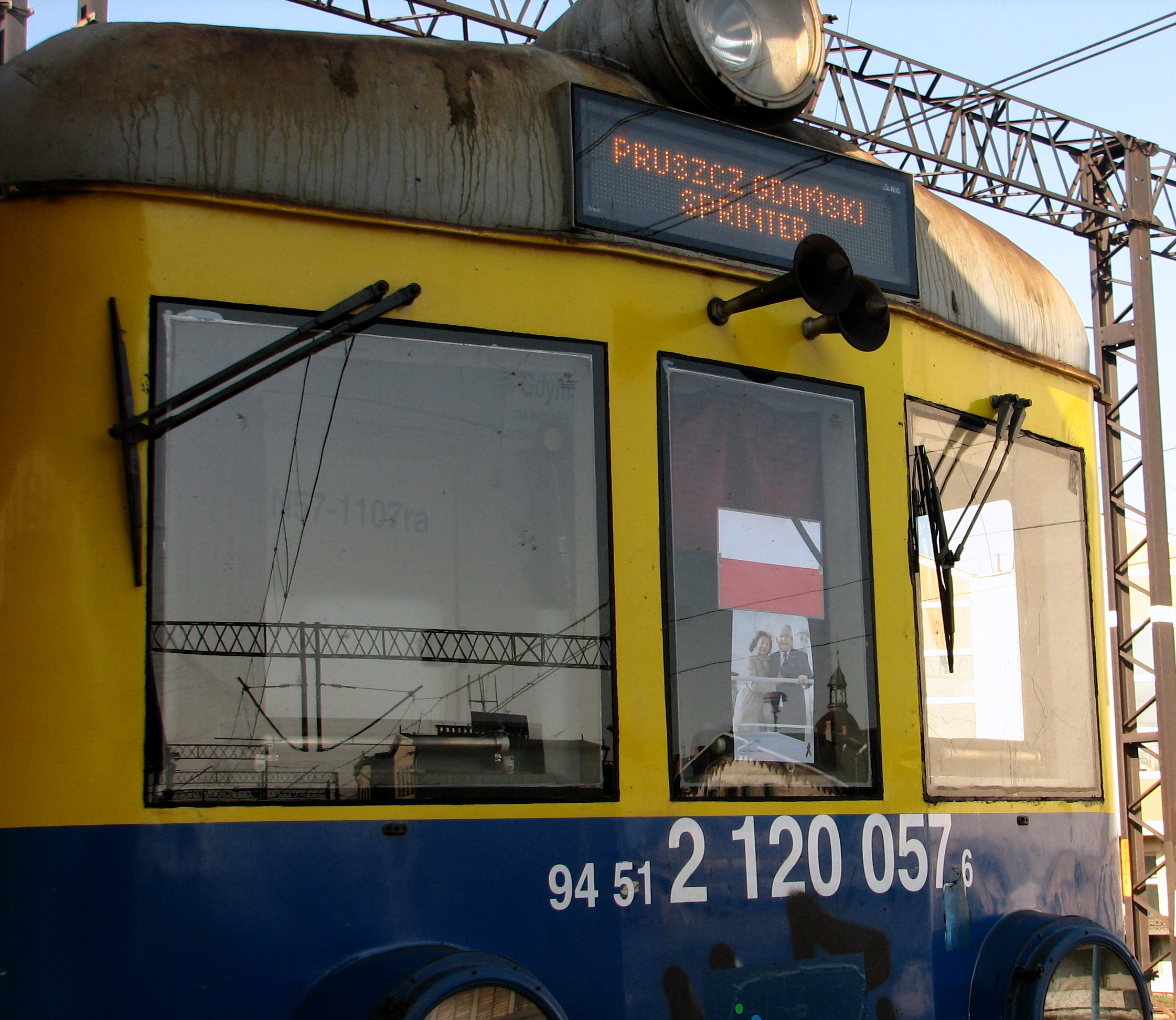 Trójmiejska SKM after president's plane crash 2010. Political opinion of uploader is secret. "Pruszcz Gdański" is the name of the target station. "Sprinter" is not the name of the station, but a sign of the train, which stops on the way only in fewer stations than other trains.